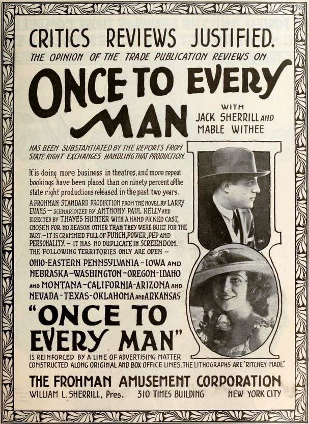 Ad for the American film Once to Every Man (1918) with Jack Sherrill and Mable Withee (1900 – 1952), on page 885 of the May 10, 1919 Moving Picture World.